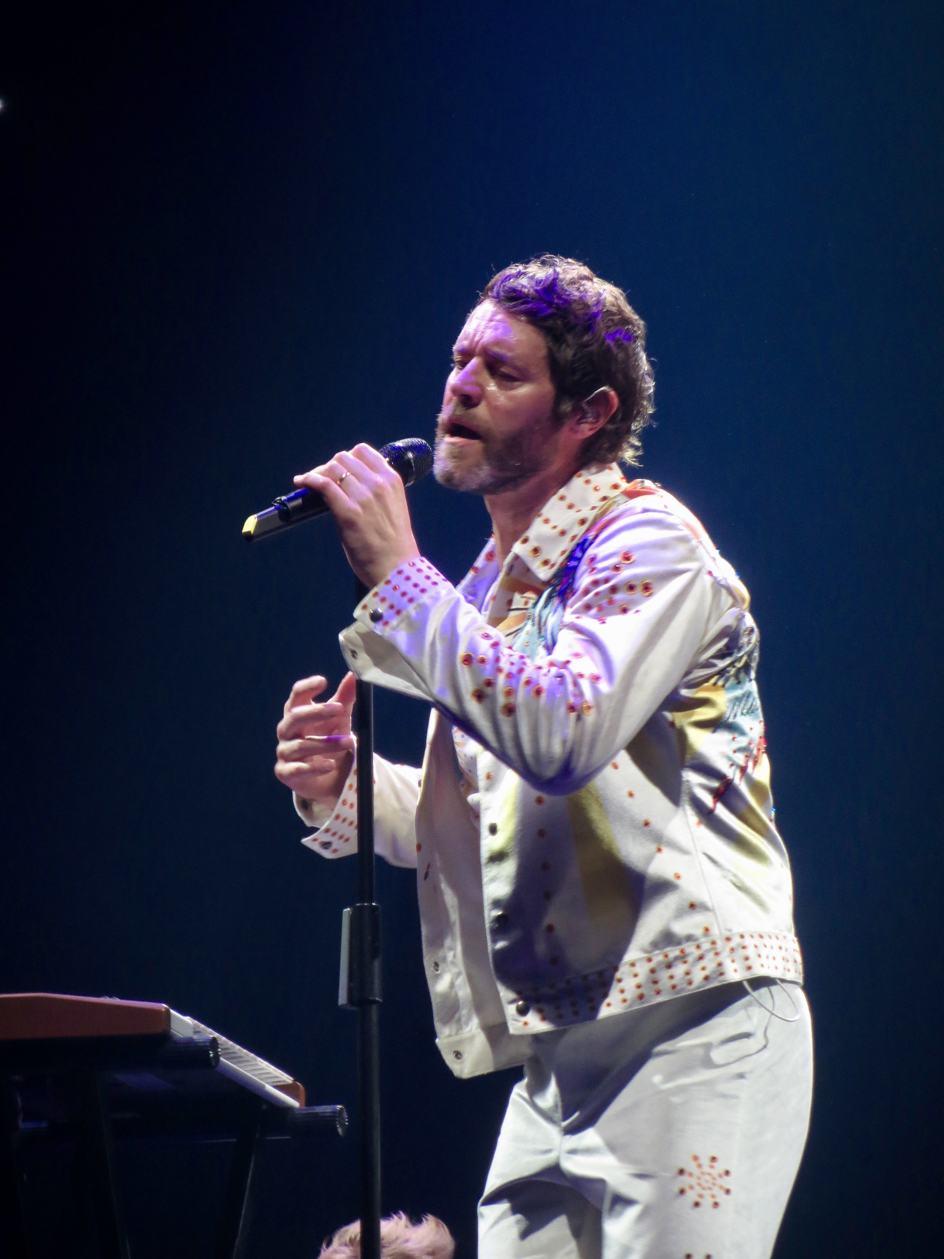 Howard Donald performing at the SSE Hydro in Glasgow during their Wonderland Live tour in 2017